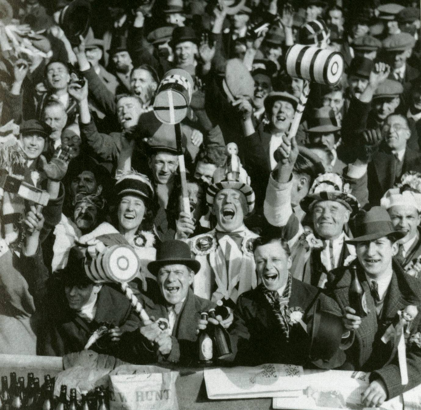 Image of West Ham United F.C. fans in 1933. Scanned from "Football: The Golden Age" by John Tennant (ISBN 0-7537-1072-2), which specifically states that the identity of the photographer is unknown, therefore under the terms set out in the template below it is believed to now be in the public domain.